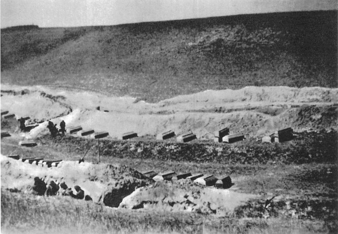 "Valley of Death" near the Bydgoszcz. Photo taken during the exhumation of victims of mass executions carried out in this place by the Nazi-Germans in autumn 1939.